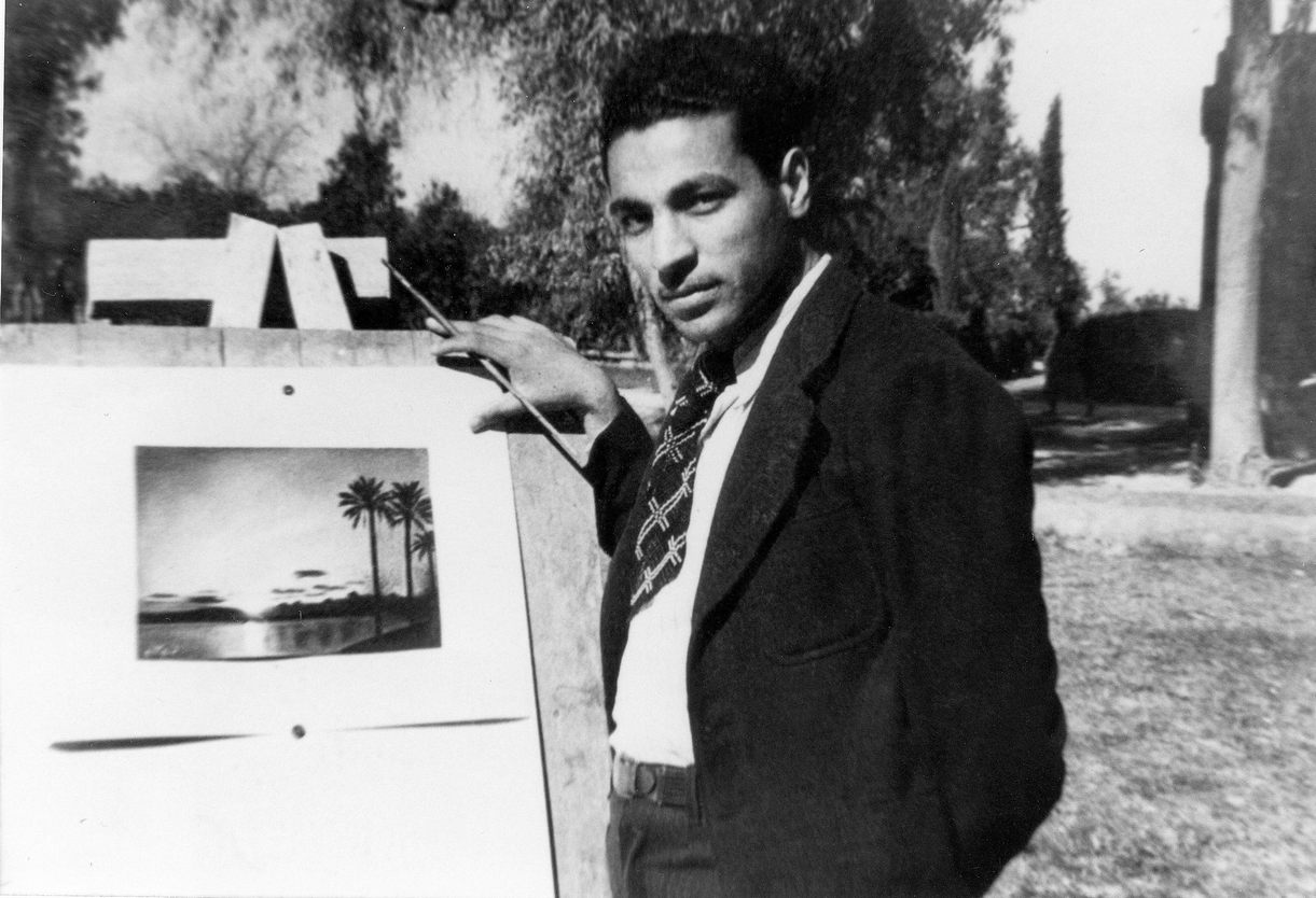 Noori AlRawi at Higher Institute Of Teachersnear Baghdad in 1941